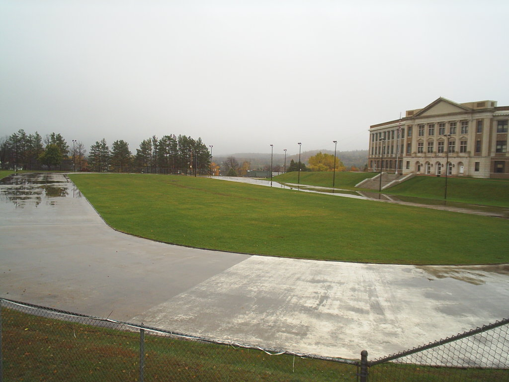 Lake Placid, NY. This served as the speed skating oval in the Winter Olympics.